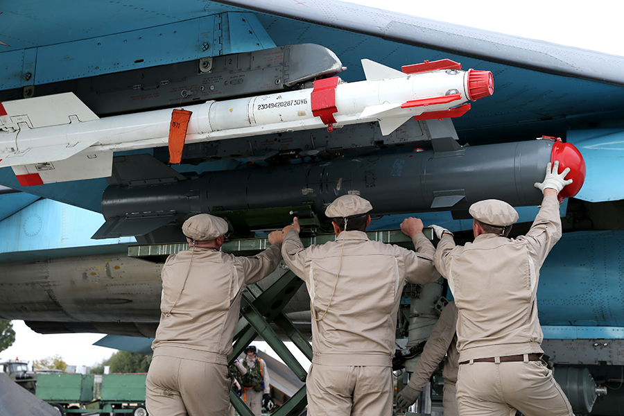 Будни авиагруппы ВКС РФ на аэродроме Хмеймим в Сирии